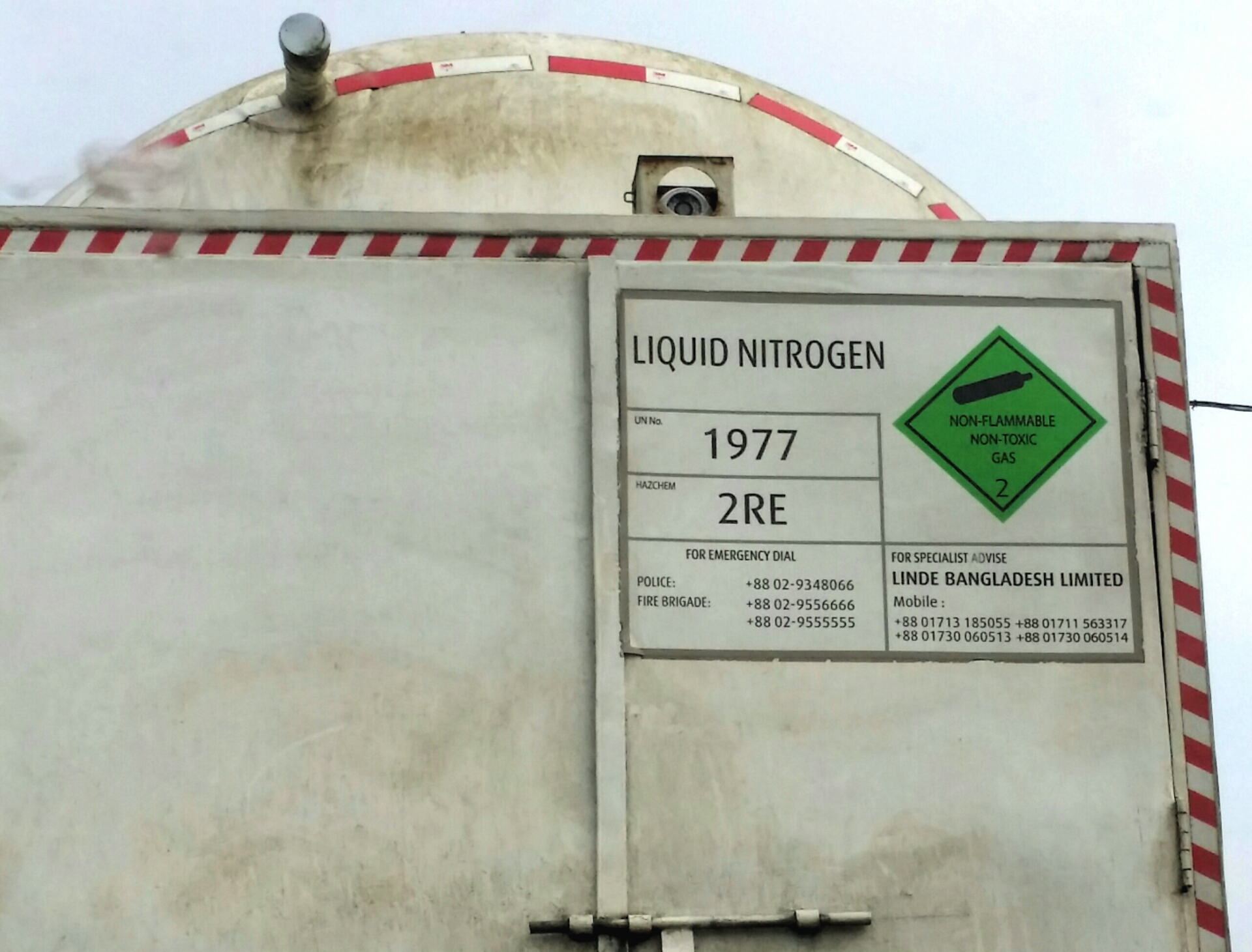 A cylinder container, containing liquid nitrogen.